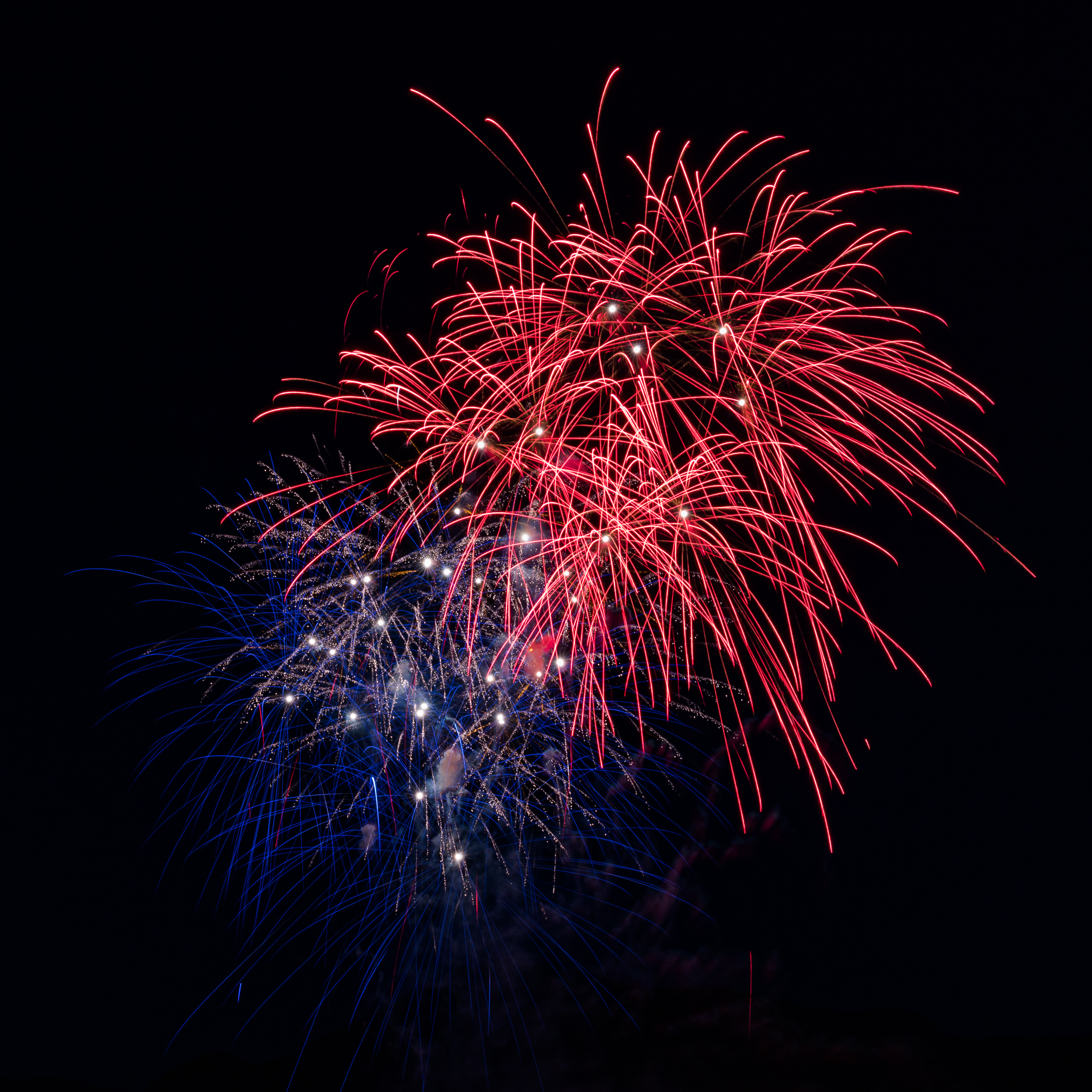 Fireworks in Annecy, France.